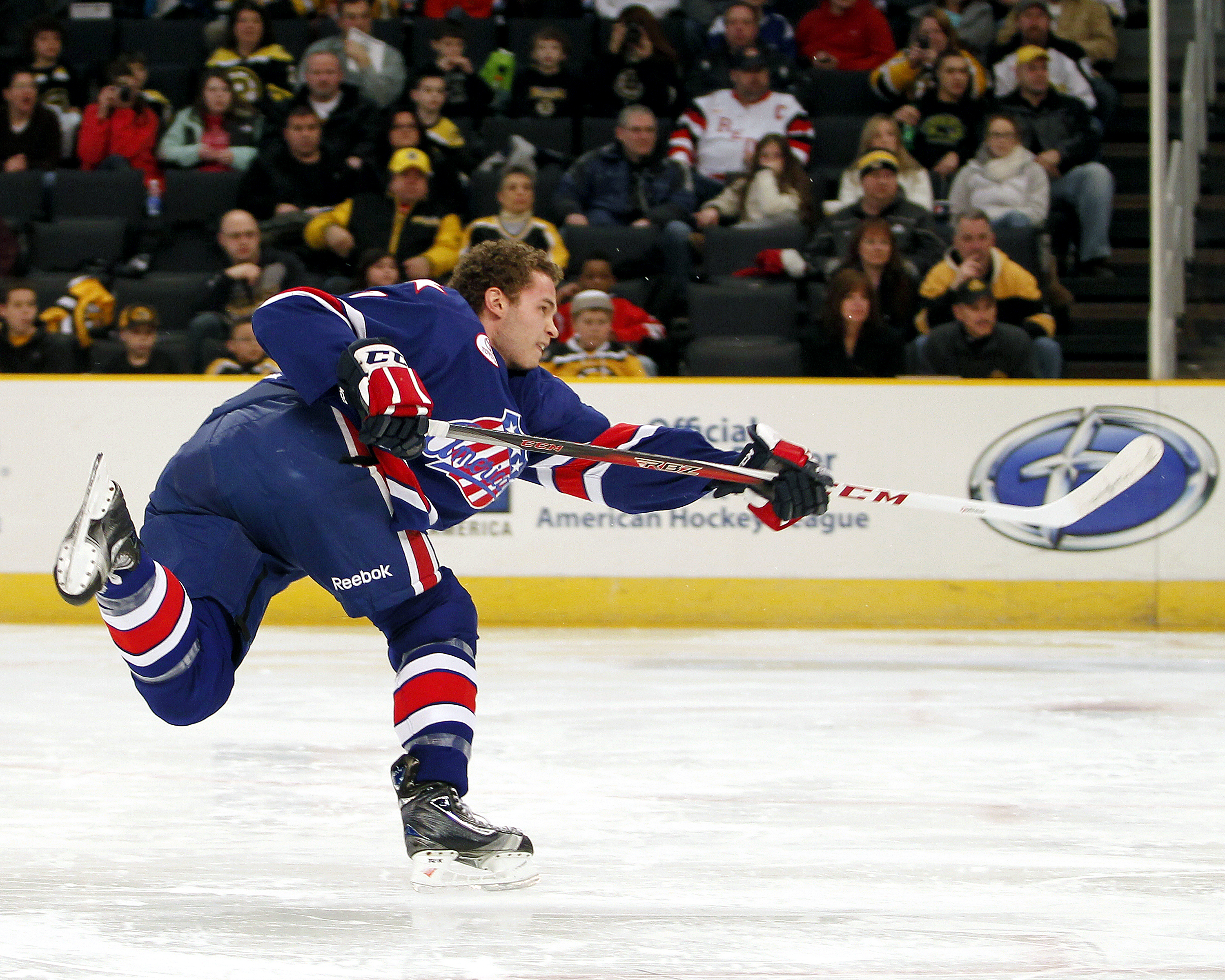 McNabb2 American Hockey League (AHL). 2013 All-Star Skills Competition. Taken on January 27, 2013.